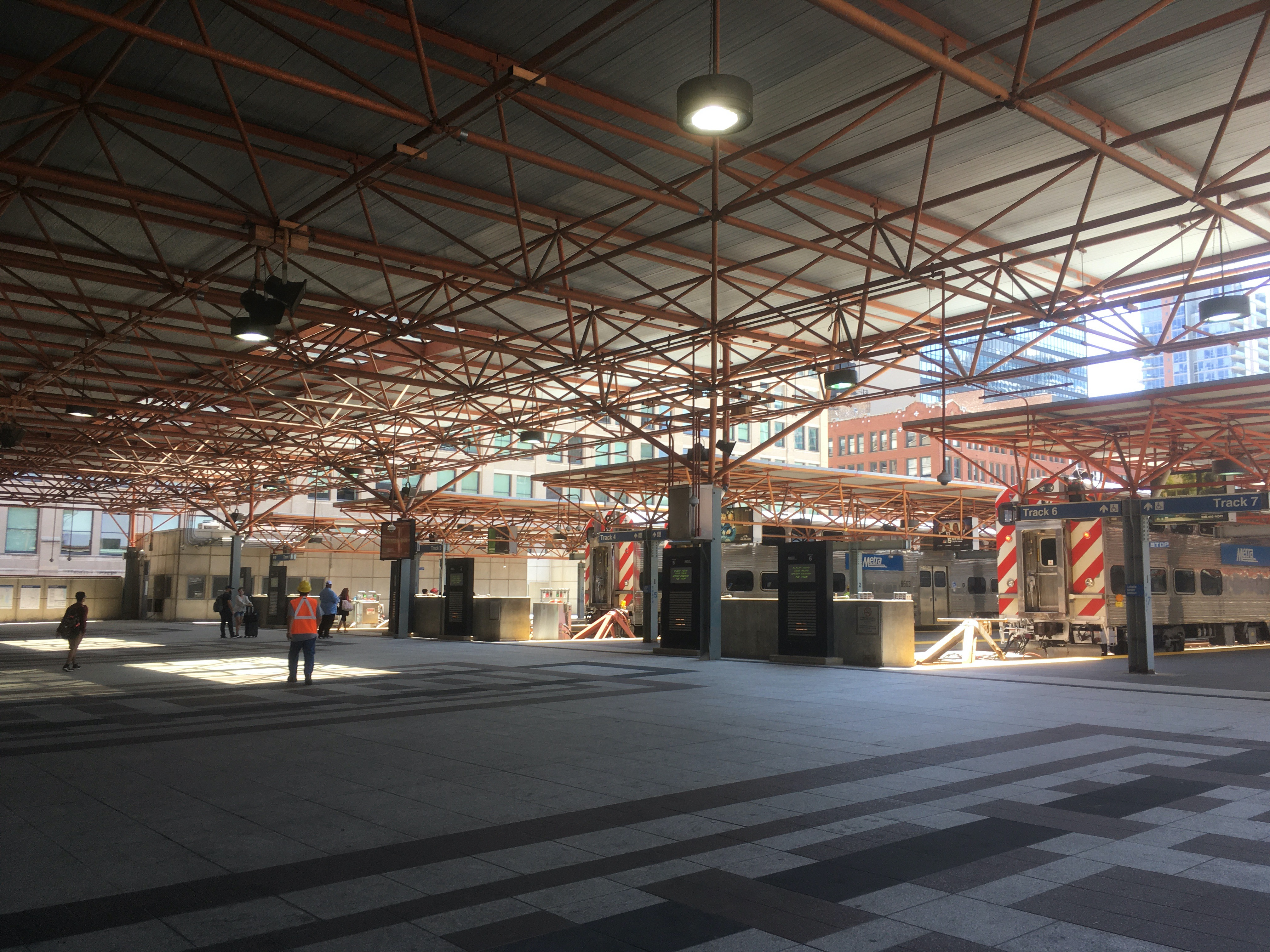 LaSalle station, July 2019